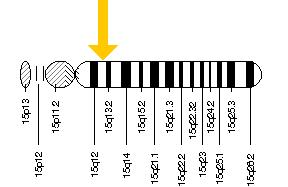 HERC2 gene. Cytogenetic Location: 15q13 The HERC2 gene is located on the long (q) arm of chromosome 15 at position 13. More precisely, the HERC2 gene is located from base pair 28,111,036 to base pair 28,322,171 on chromosome 15.